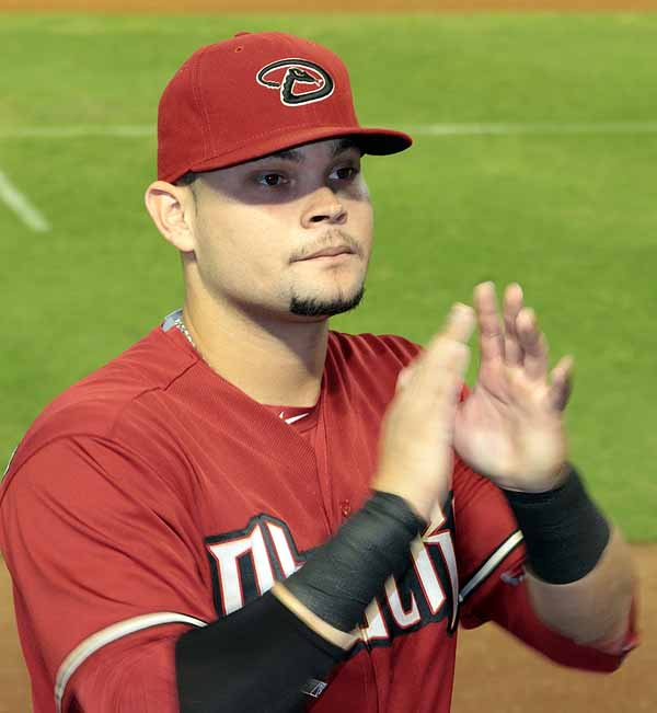 Oscar Hernandez, AZ Diamondbacks, 2015